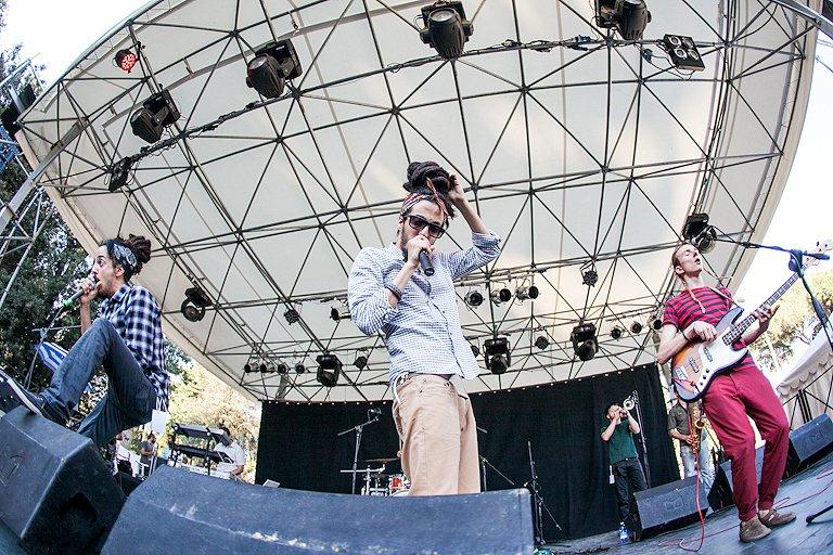 La Tempesta Gemella, an event hosted by the independent Italian musical label La Tempesta Dischi, at the Piazzale del Verano, Rome, June 23-24, 2012.